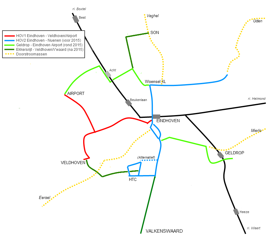 Map of the (future) HOV (rapid transport) network of Eindhoven